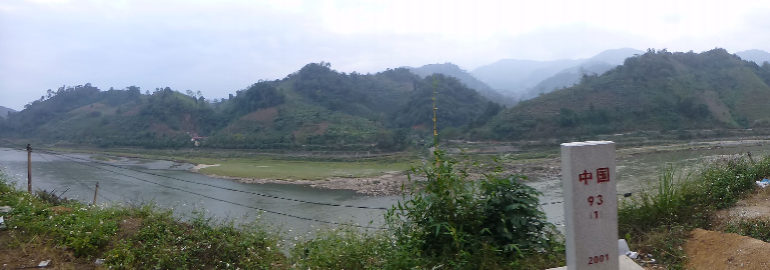 The Red River, forming China's border with Vietnam, seen from Hwy G326 in Hekou County, south-east of Wudaokou